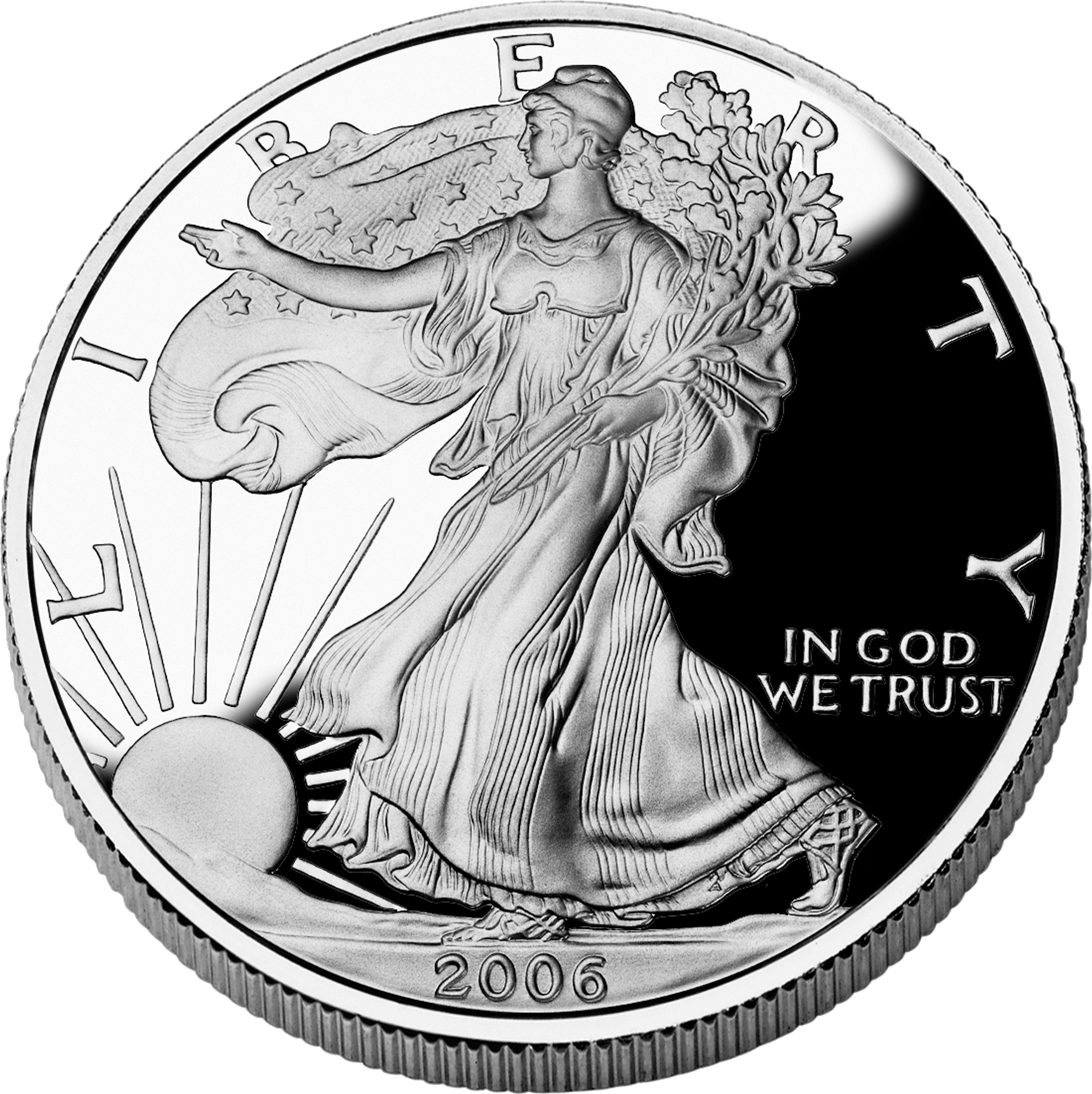 American Eagle. Design by Adolph Alexander Weinman Removed background, cropped, and converted to PNG with Macromedia Fireworks. This image depicts a unit of currency issued by the United States of America. If Fraudulent use of this image is punishable under applicable counterfeiting laws. As listed by the United States Secret Service at money illustrations, the Counterfeit Detection Act of 1992, Public Law 102-550, in Section 411 of Title 31 of the Code of Federal Regulations (31 CFR 411), permits color illustrations of U.S. currency provided:1. The illustration is of a size less than three-fourths or more than one and one-half, in linear dimension, of each part of the item illustrated;2. The illustration is one-sided; and3. All negatives, plates, positives, digitized storage medium, graphic files, magnetic medium, optical storage devices, and any other thing used in the making of the illustration that contain an image of the illustration or any part thereof are destroyed and/or deleted or erased after their final use. Certain coins contain copyrights licensed to the U.S. Mint and owned by third parties or assigned to and owned by the U.S. Mint [1]. For the United States Mint circulating coin design use policy, see [2]; for the policy on the 50 State Quarters, see [3]. Also: COM:ART #Photograph of an old coin found on the Internet